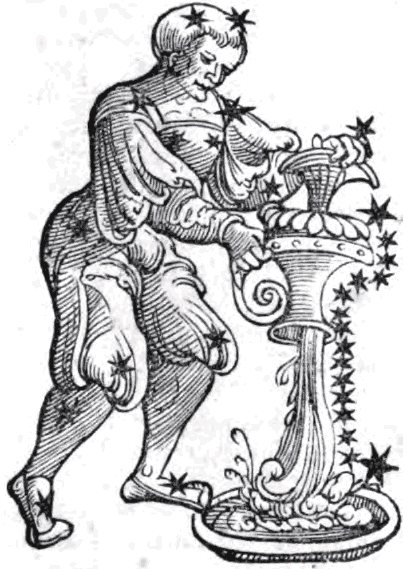 Aquarius the Water-Bearer, from Guido Bonatti Liber Astronomiae